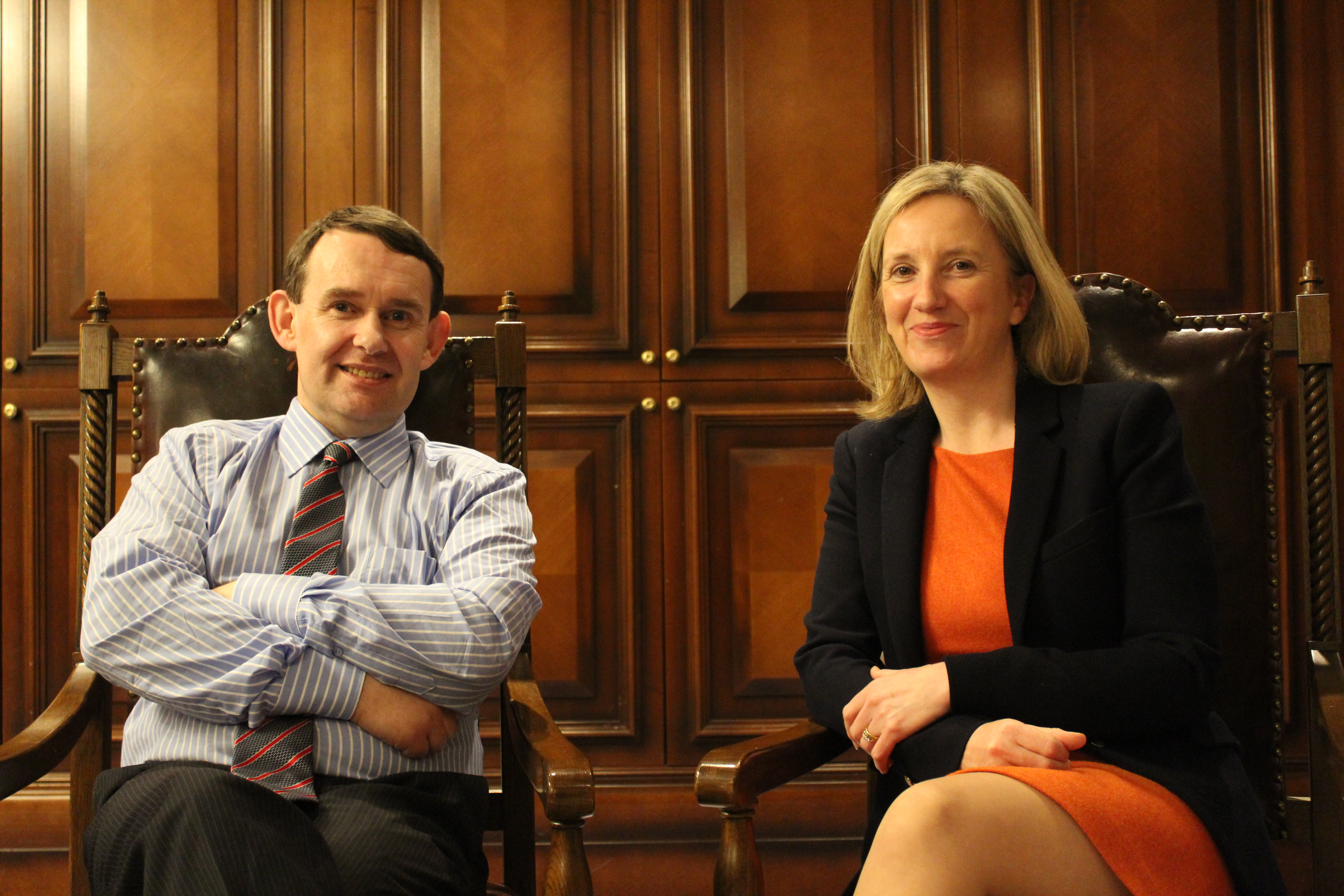 Irish National Party Justin Barrett interviewed by Irish journalist Gemma O'Doherty in April 2019